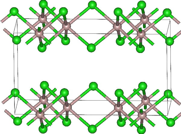 LuCl3 structure